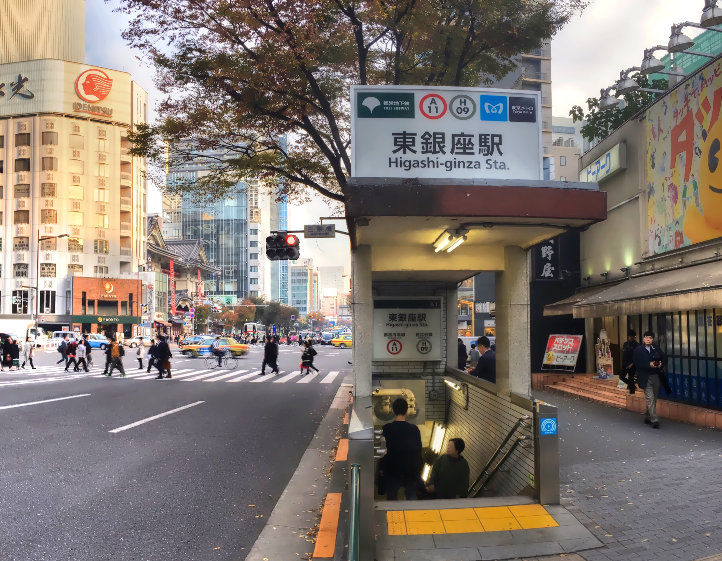 東銀座駅のA1出口 (Higashi Ginza station A1 exit)